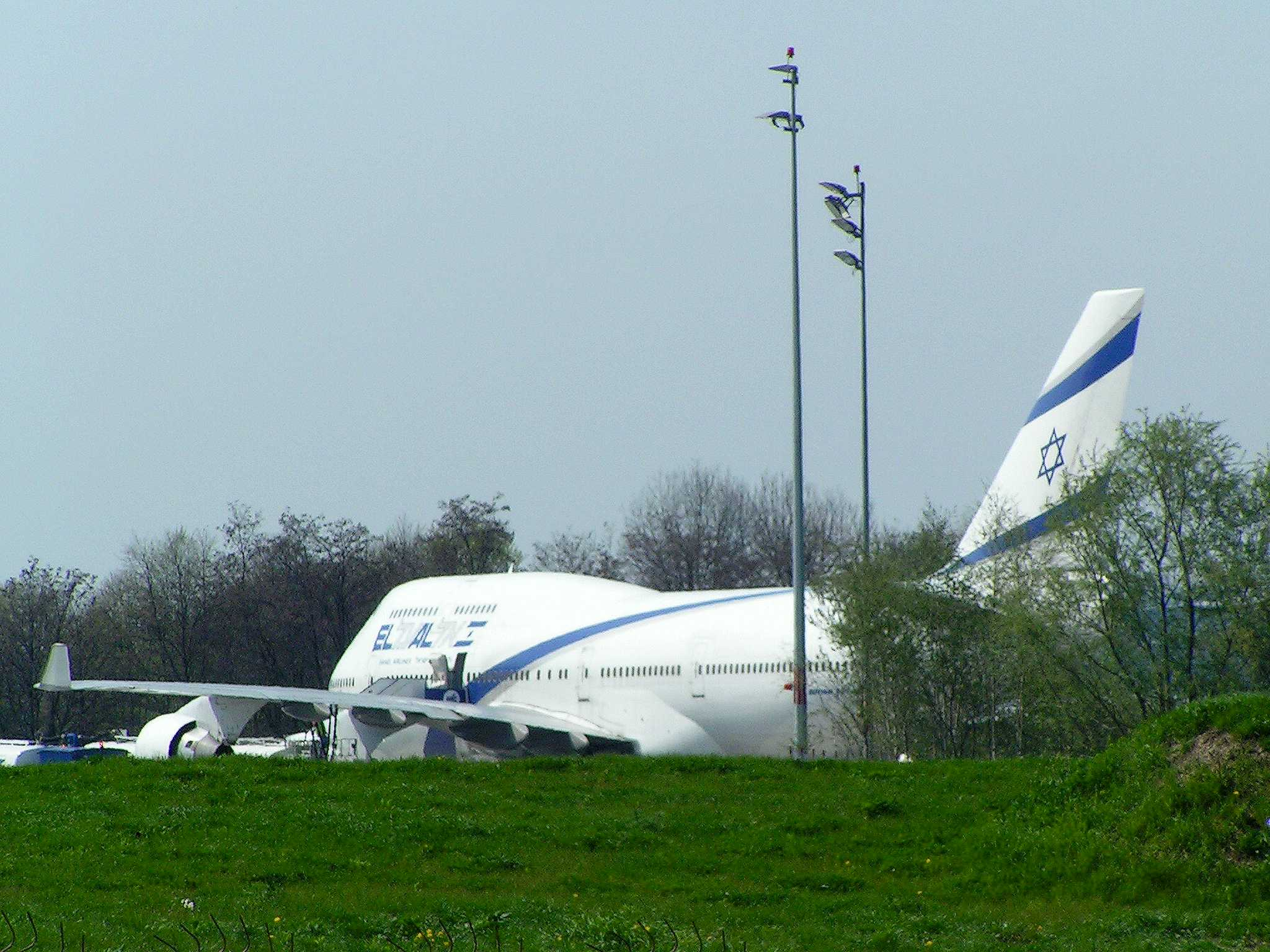 Kraków airport (KRK) Boeing 747-458 reg. no: 4X-ELC nr 27915/1062